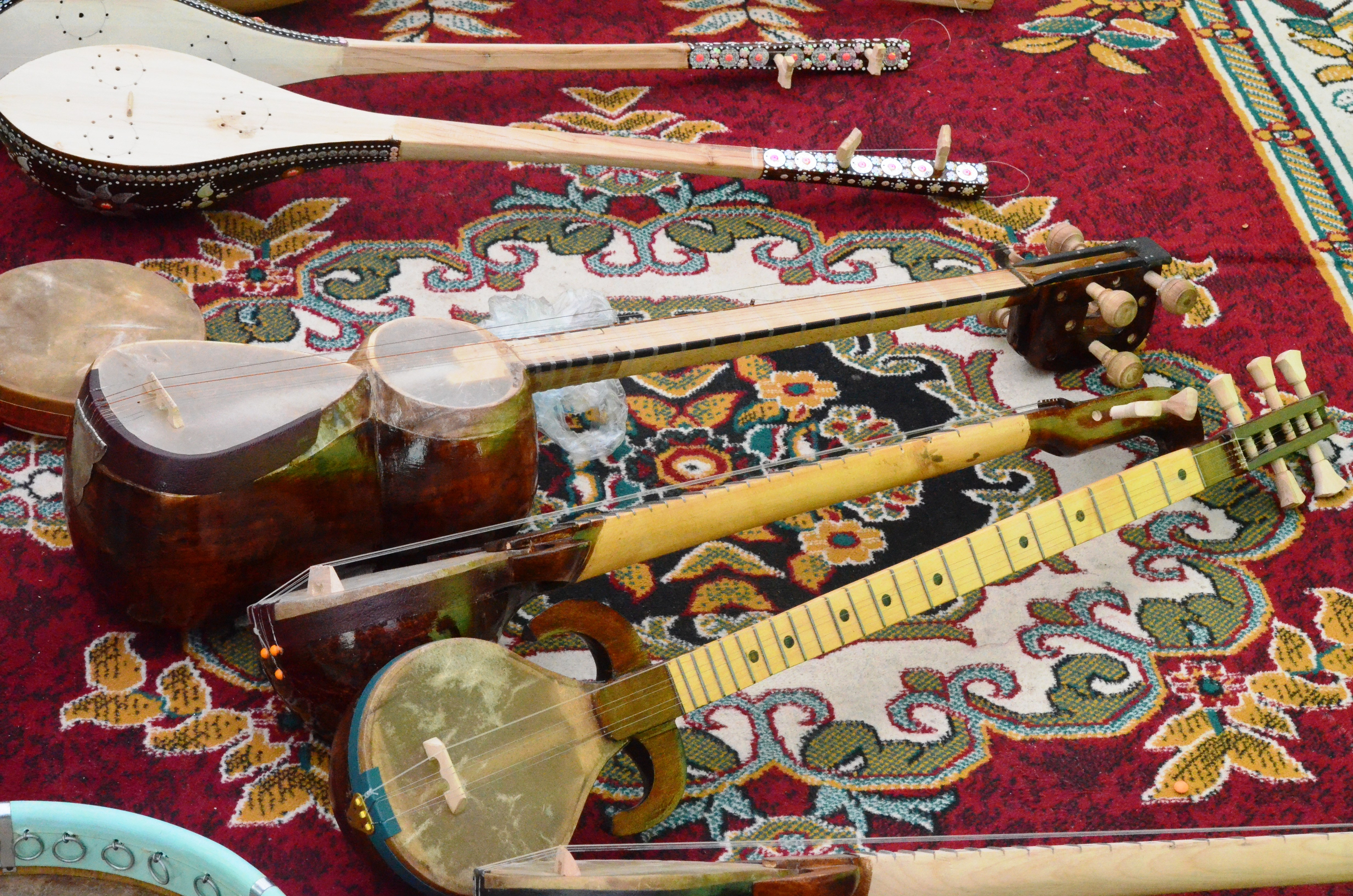 Musical instruments Rubabs and Dutars in Tajikistan